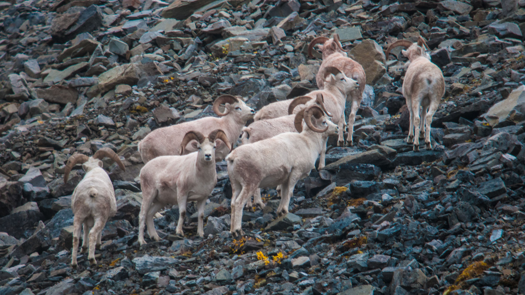 Gates of the Arctic National Park and Preserve photos by Zak Richter/NPS